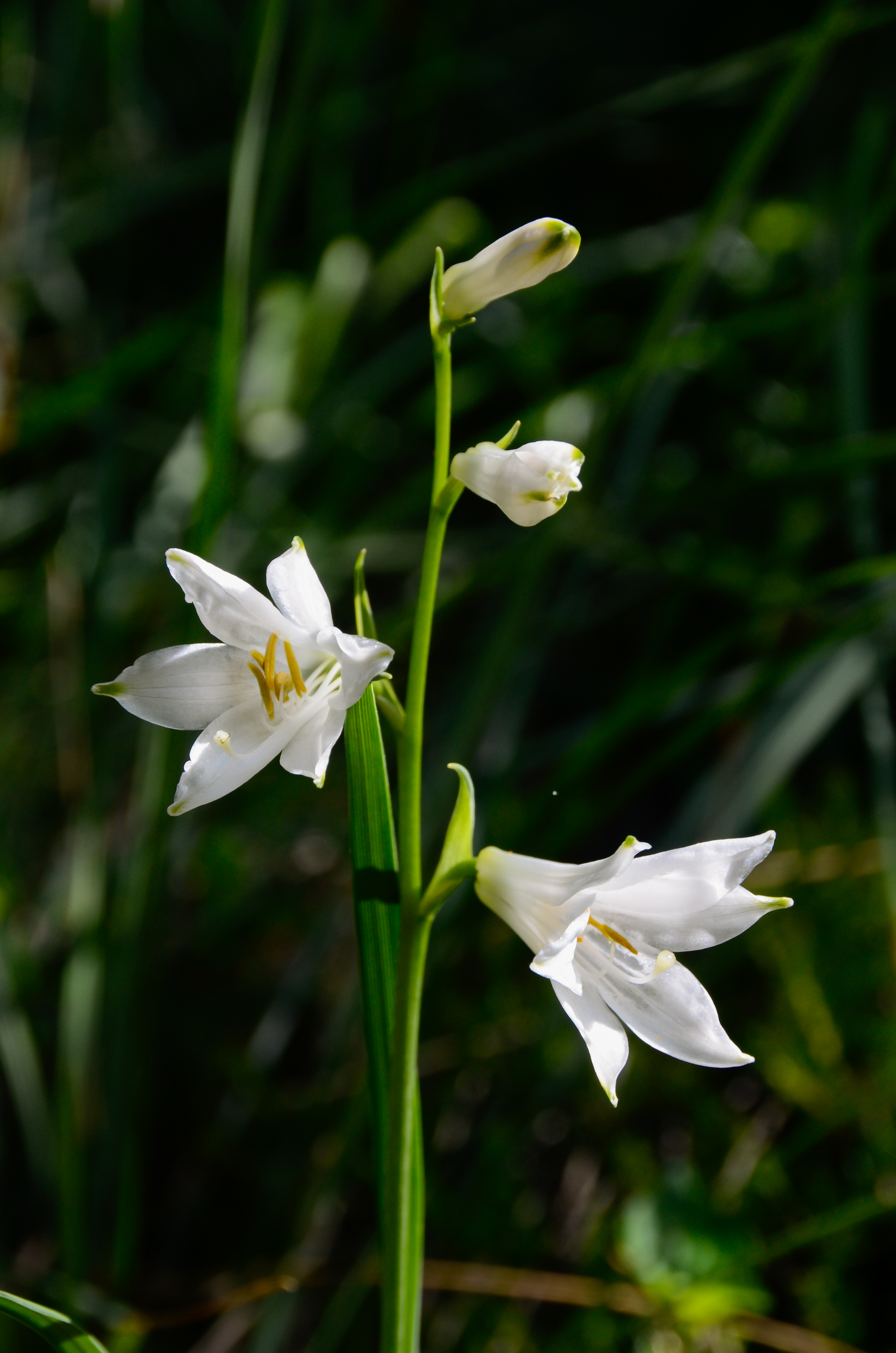 Paradisea liliastrum at the Mussen alp at Strajach, municipality Kötschach-Mauthen, district Hermagor, Carinthia, Austria, EU